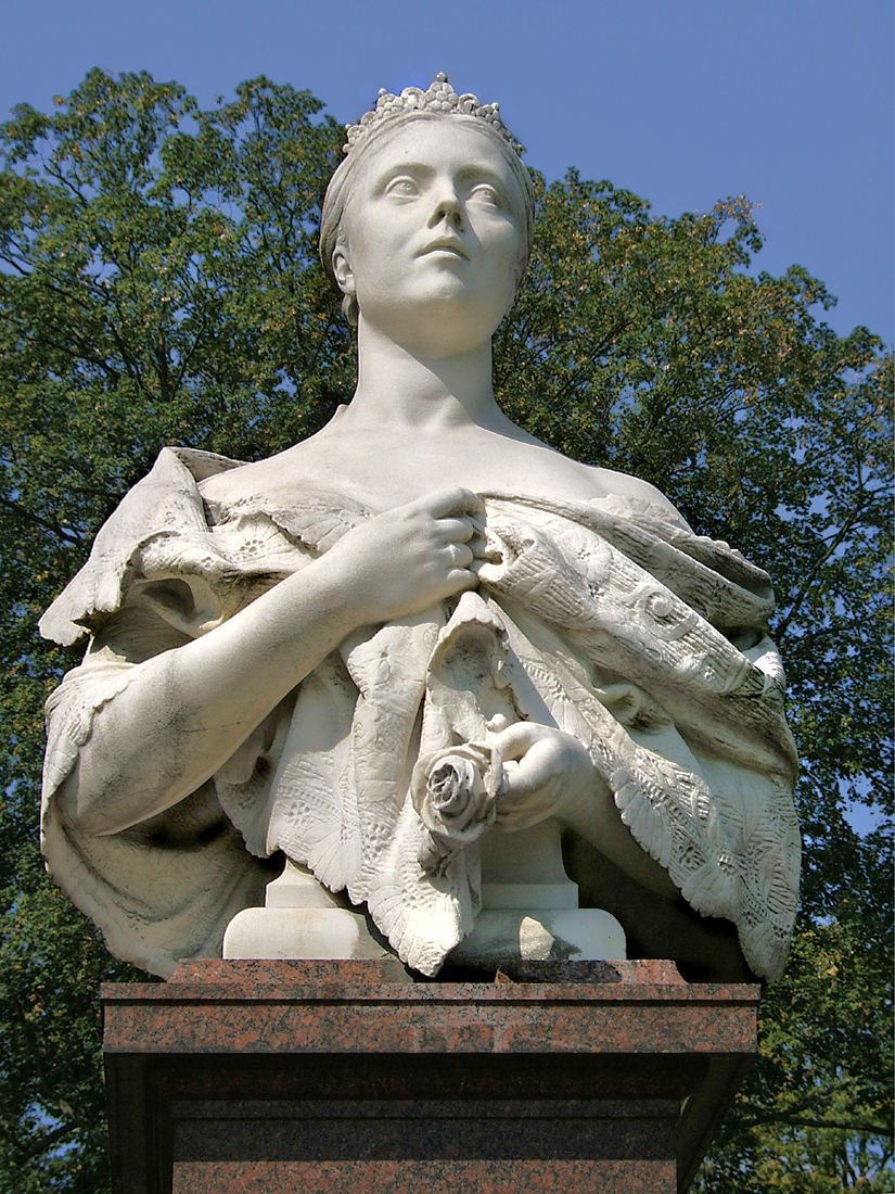 Monument to former Empress Victoria by Joseph Uphues, 1902, in Spa gardens in Bad Homburg vor der Höhe, Germany